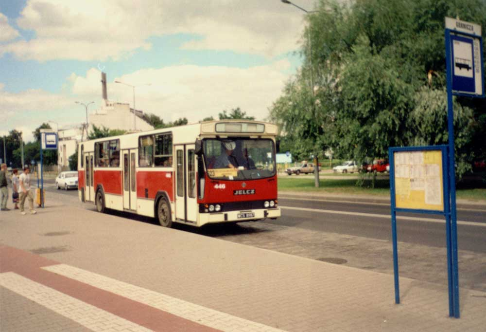 Jelcz PR110R bus (#446) in Wrocław, Poland. Built 1996, DLA Wrocław operator.